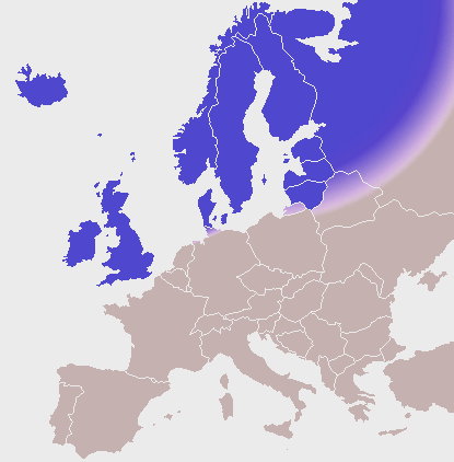 Northern Europe, including the Nordic region.